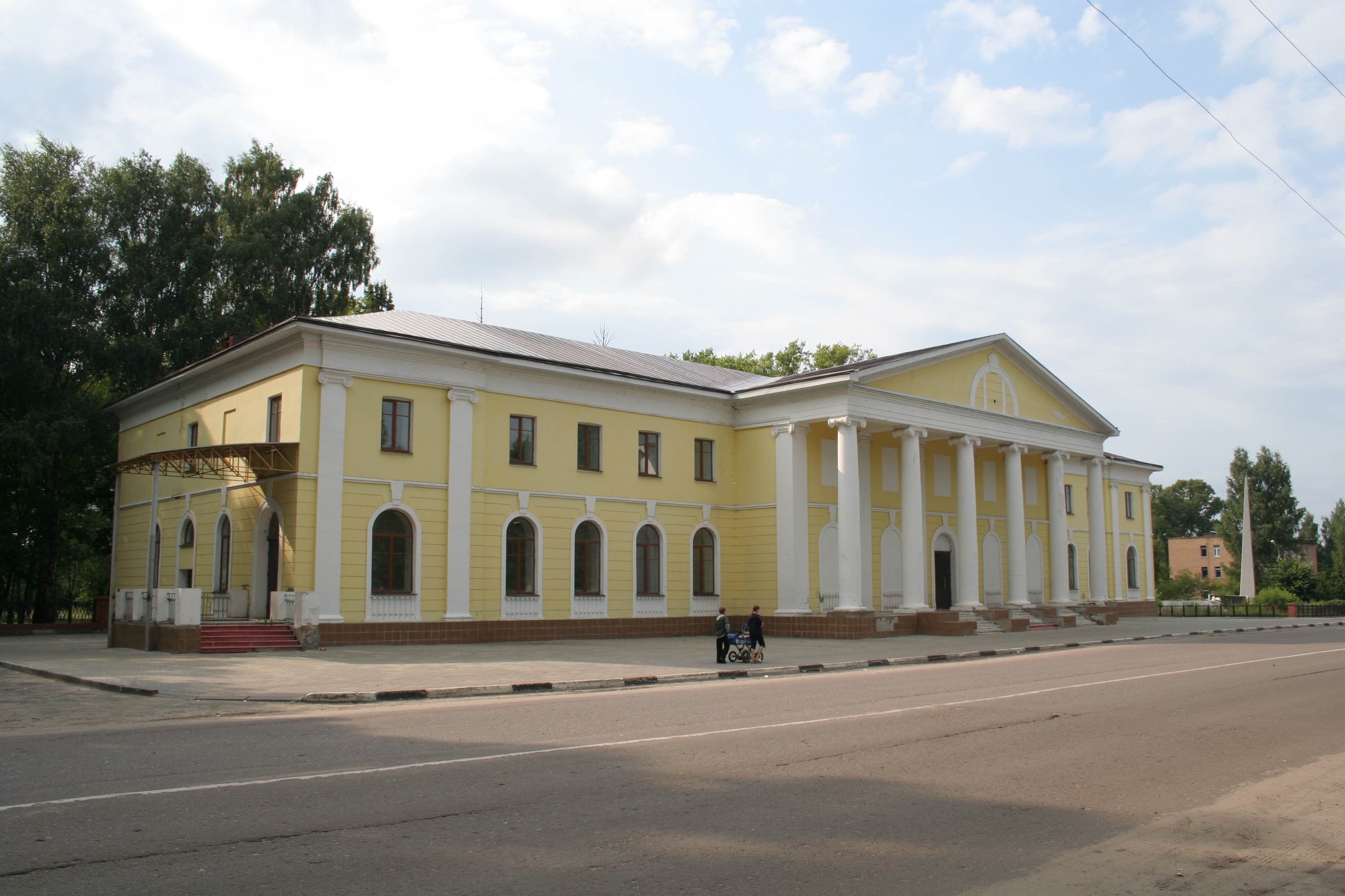 Former building of Club/Culture house in Roshal, Moscow Oblast, Russia.